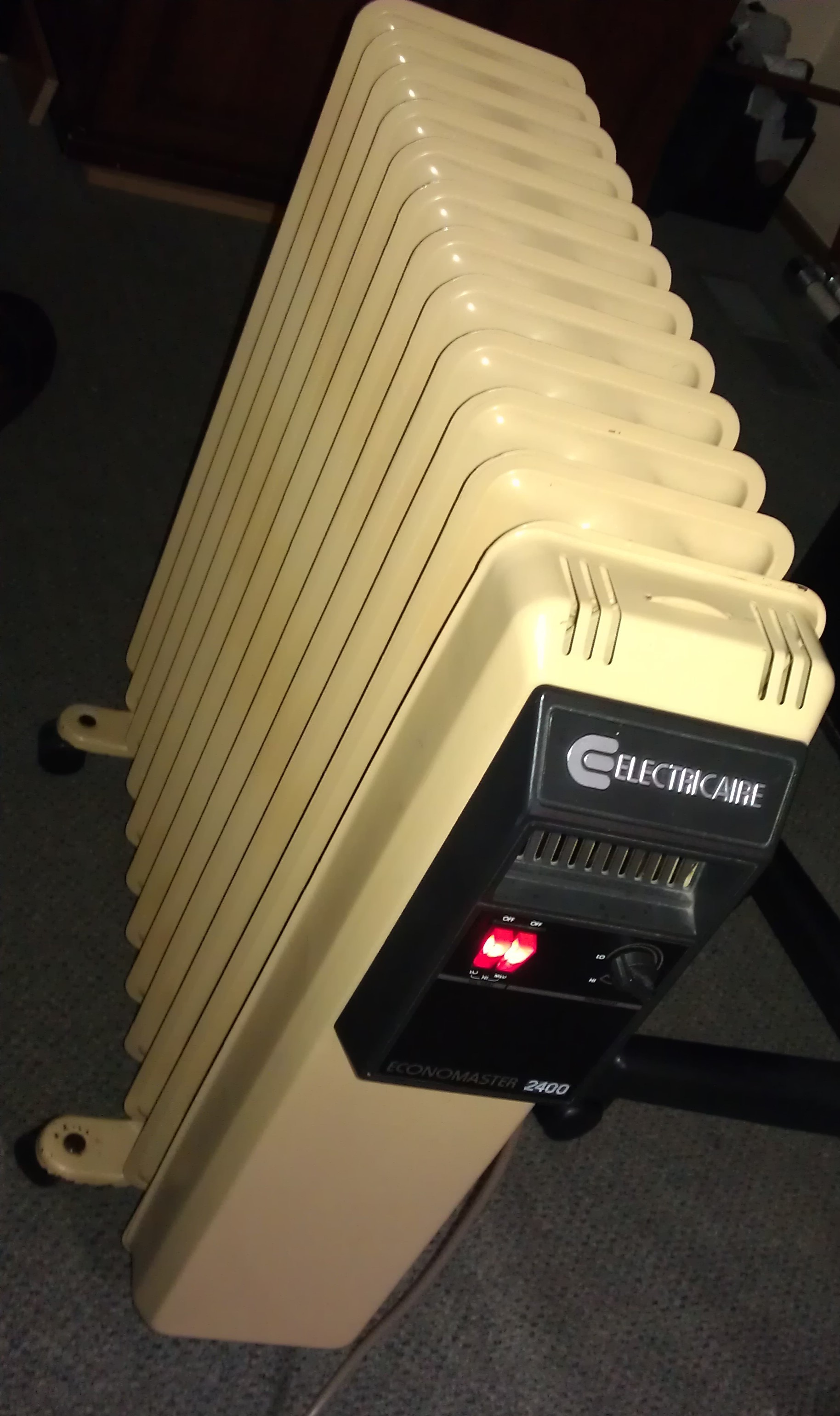 Electricaire Economaster 2400 Electric Oil Heater, 23 July 2012